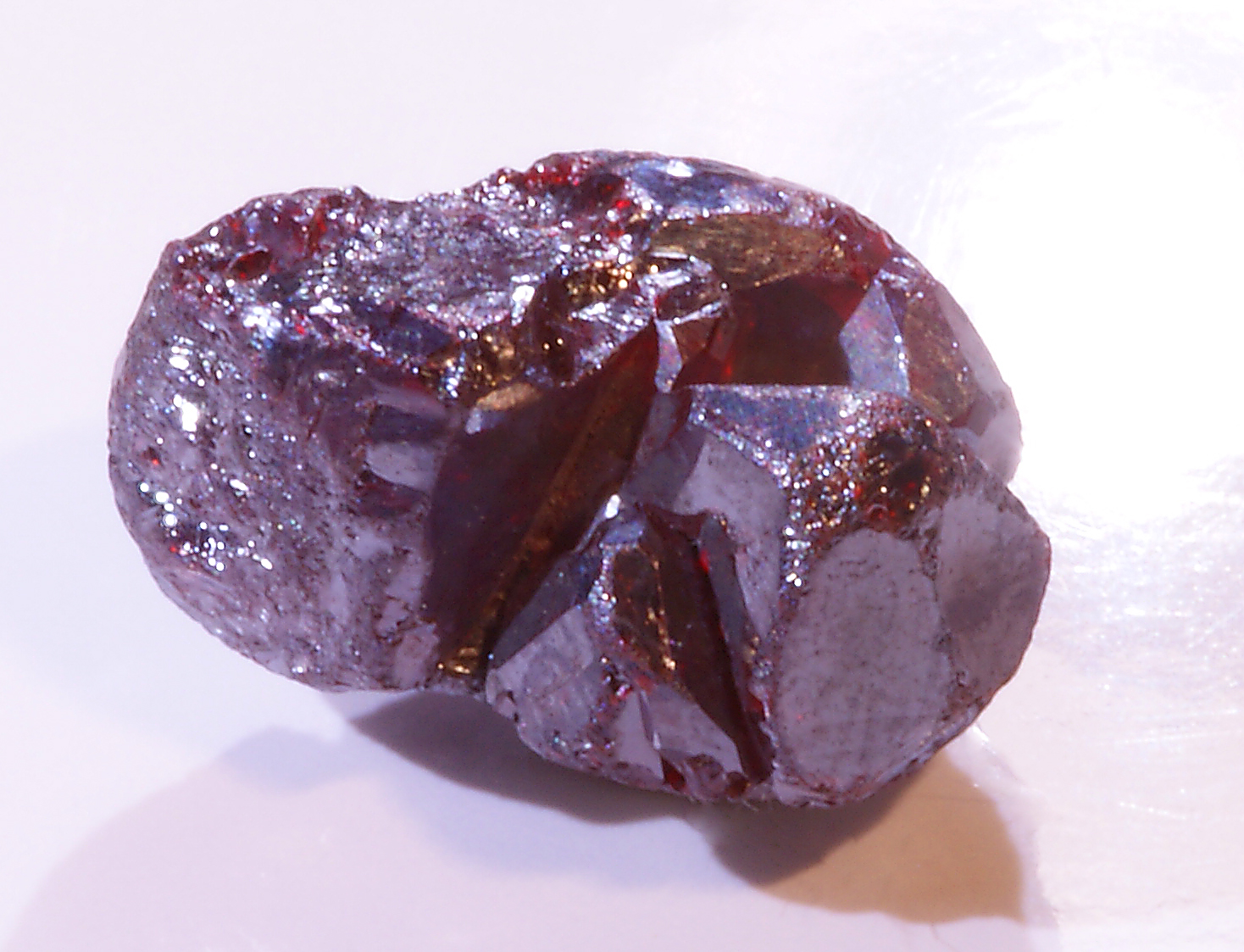 Pyrargyrite - St Andreasberg, St Andreasberg District, Harz Mts, Lower Saxony, Germany (1.8x1.3cm)